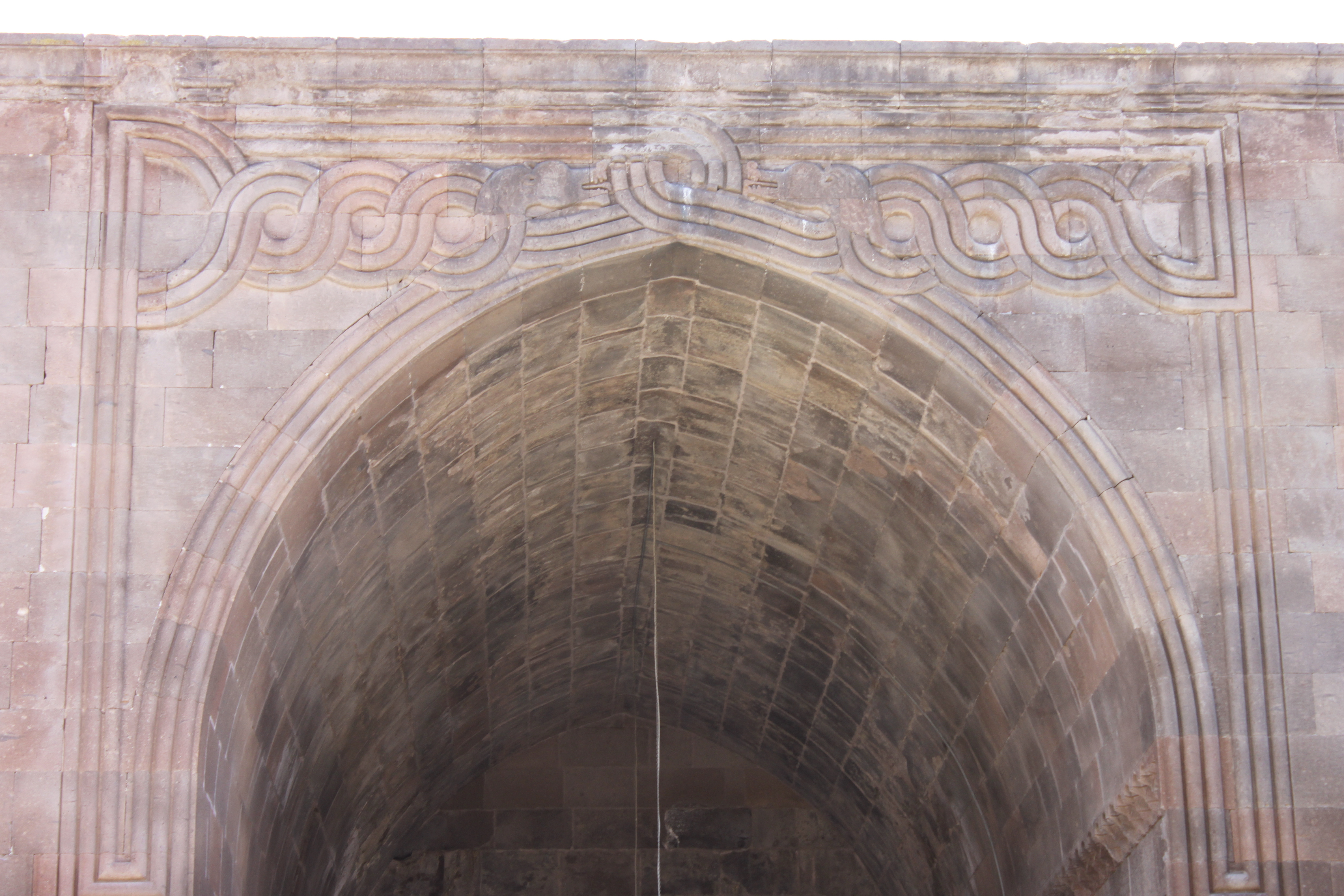 Karatay Han, Seljuk snake motif at the entrance portal inside from the year 1240.